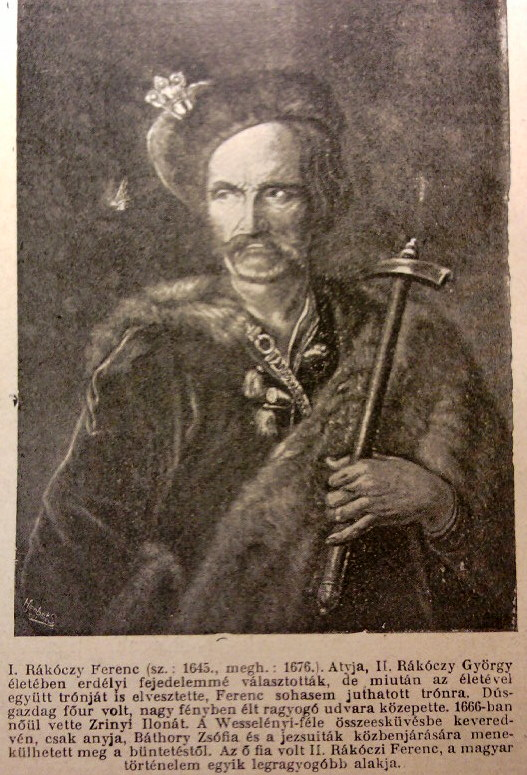 Francis I Rákóczi (1645-1676) father of Francis II Rákóczi